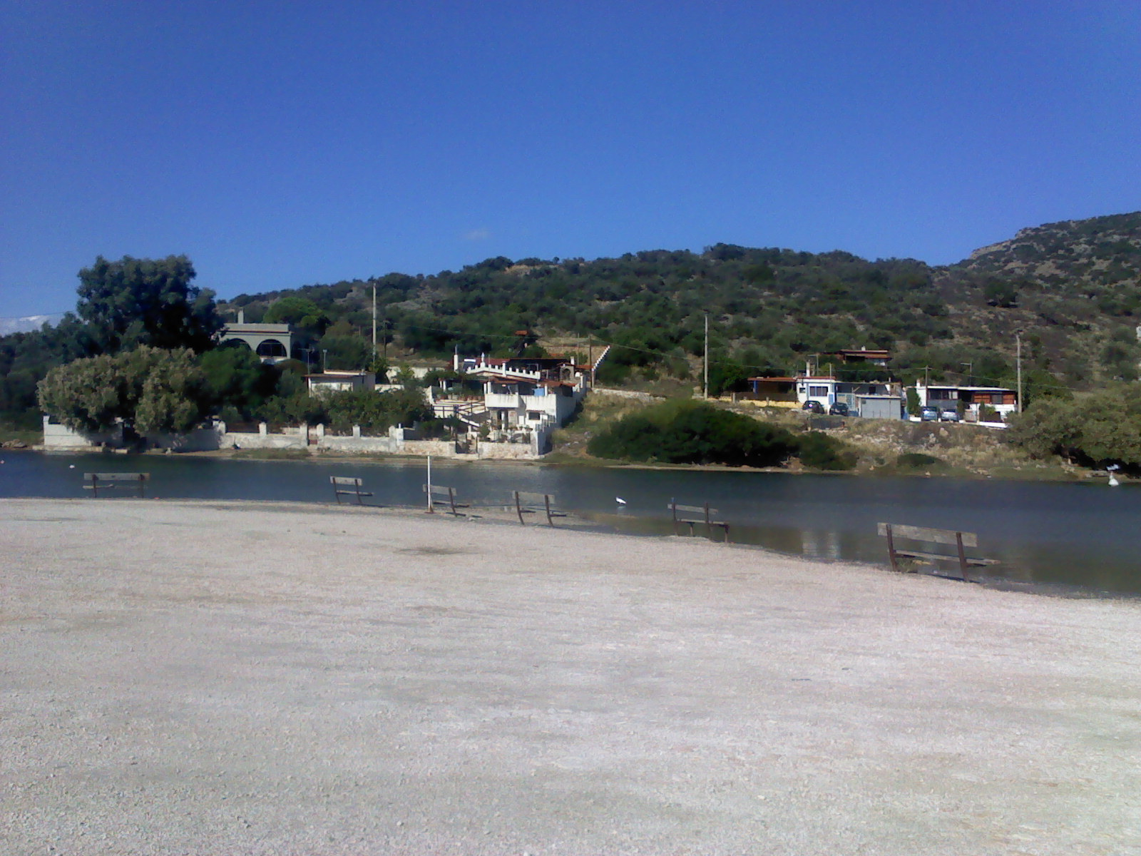 Peninsula Koroni Porto Rafti